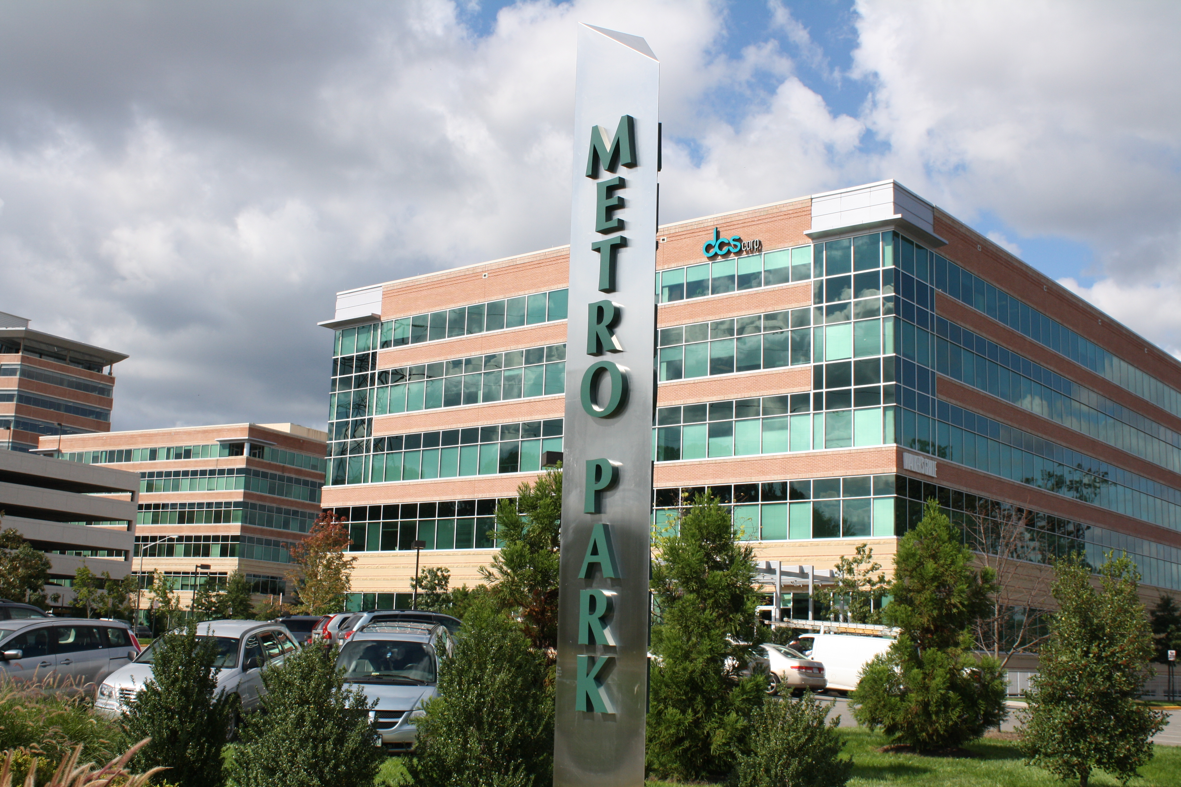 Metro Park Campus at Metro Park Road and Beulah Street in Springfield / Alexandria, Virginia on Tuesday afternoon, 4 October 2011 by Elvert Barnes Photography Visit Metro Park / Alexandria VA at